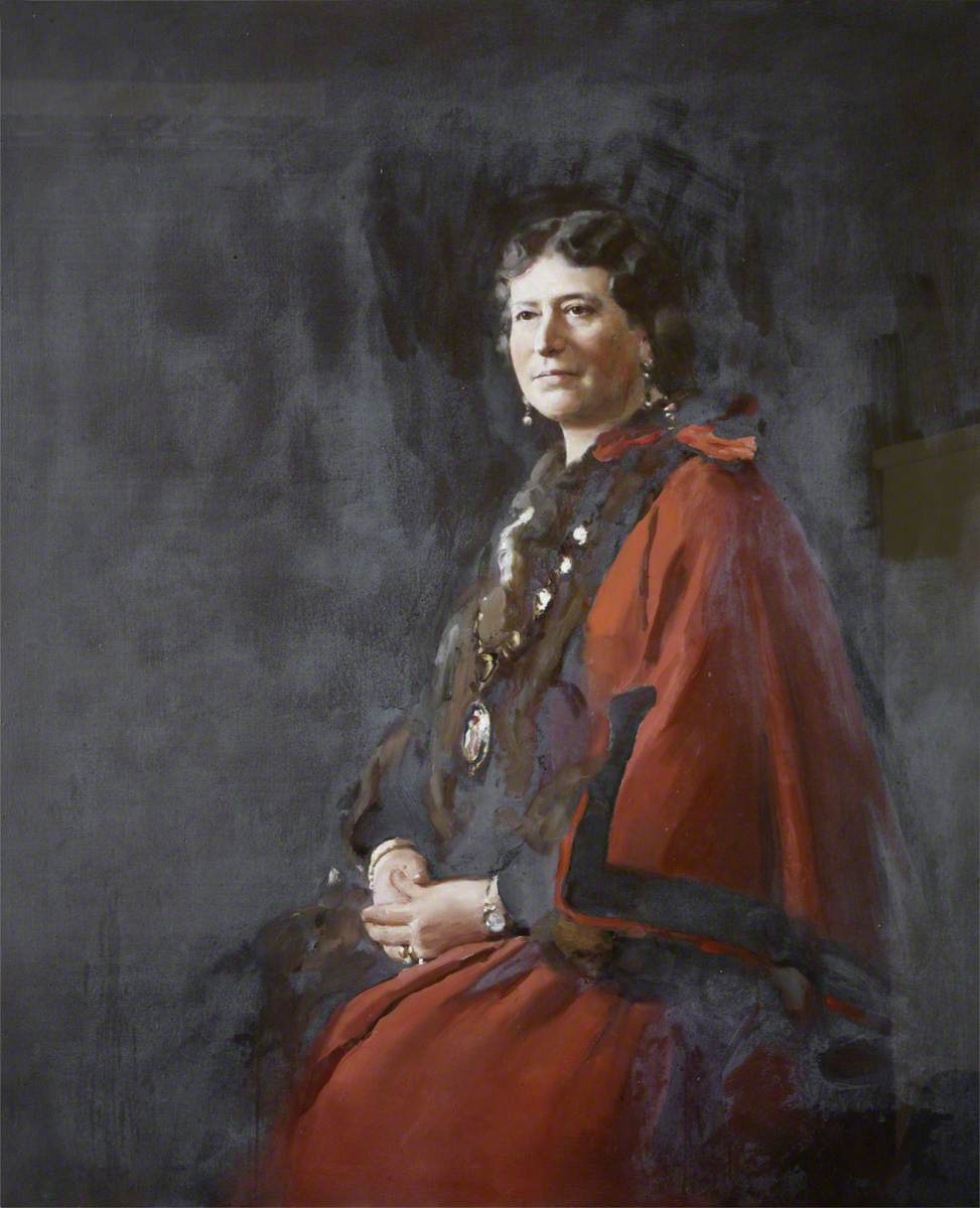 unknown artist??? ArtUk says John Lavery???; Juanita Maxwell Phillips (1880-1966); Honiton Town Council